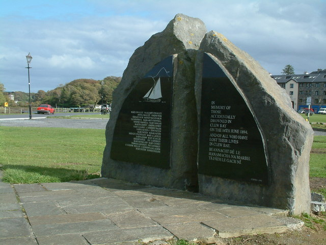 Clew Bay Tragedy Memorial. Clew Bay Tragedy Memorial at Westport Quay